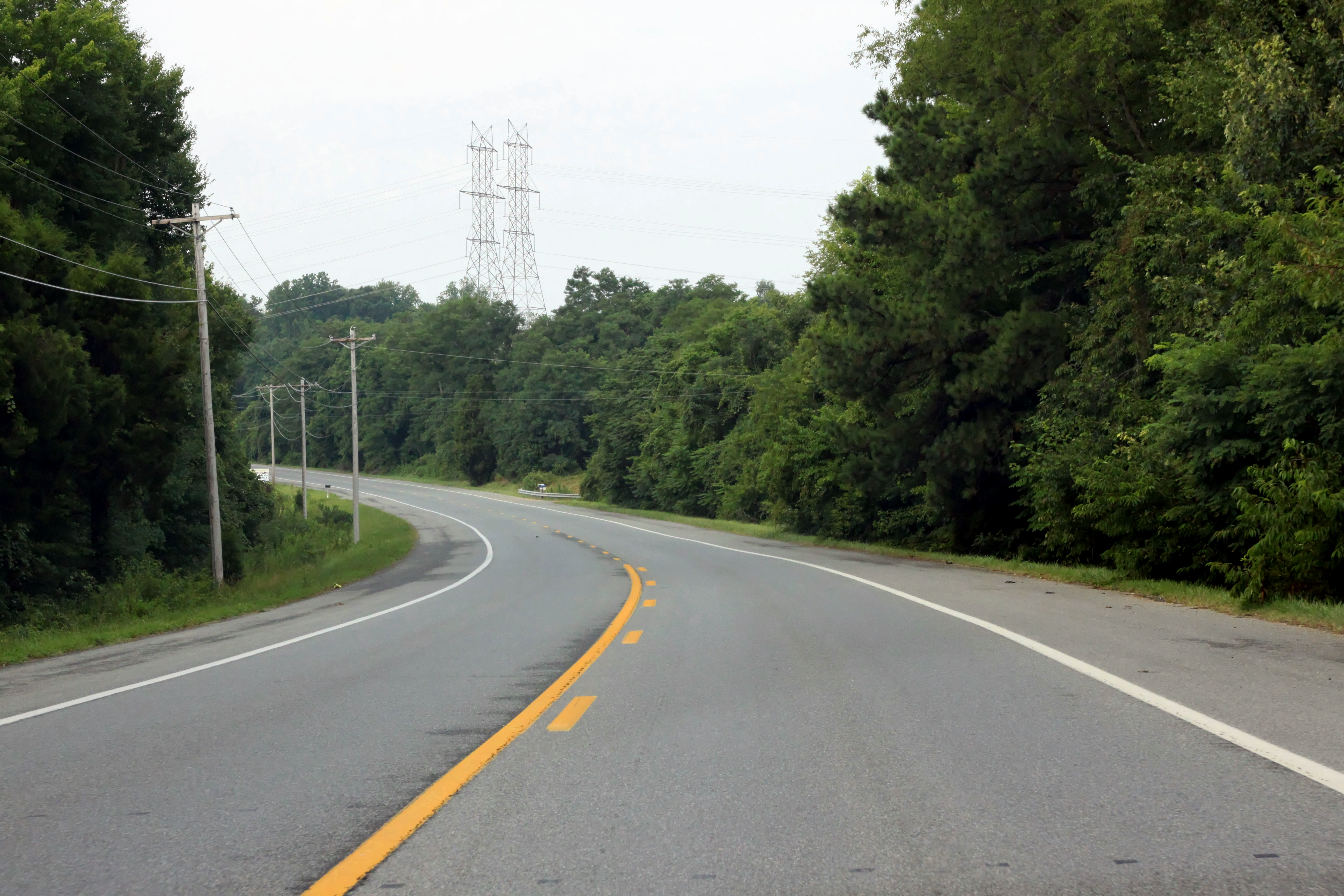 Shot of Maryland State Route 234 (Budds Creek Road), heading westbound in Charles County in Southern Maryland towards U.S. Route 301.